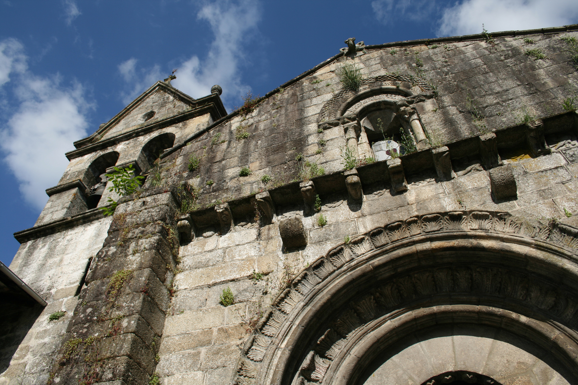 Iglesia de San Juan (siglo XII), un templo de la Orden de Malta en Ribadavia (Galicia, España). Cross of Malta. Church of Saint John (XII century), a temple of the Order of Malta in Ribadavia (Galicia, Spain).